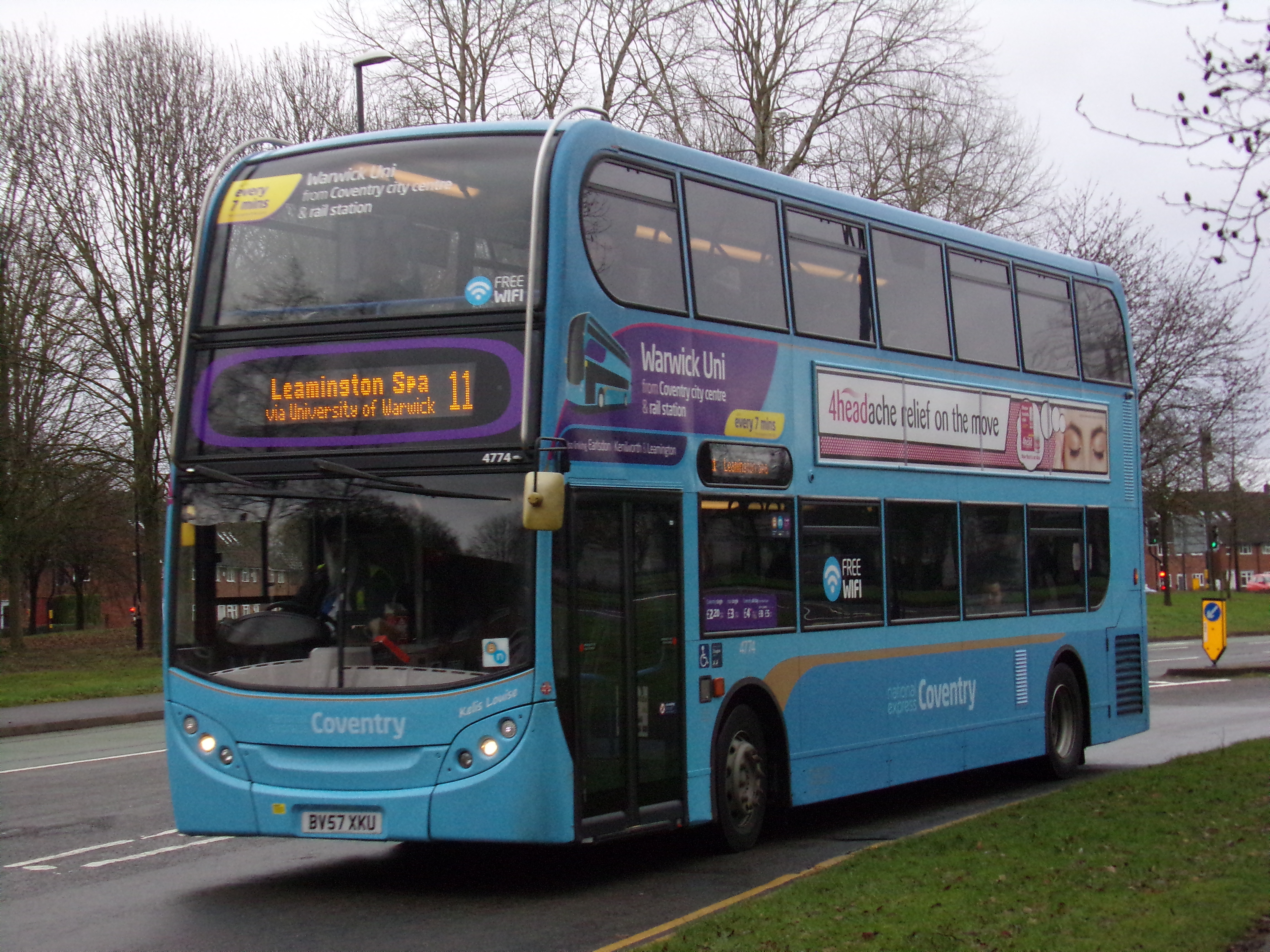 National Express Coventry Alexander Dennis Enviro400 in January 2018